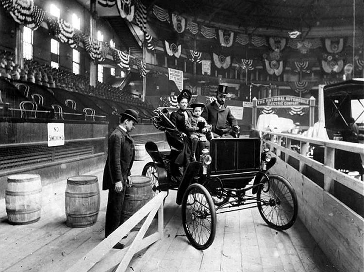 Some folks sitting in a "horseless carriage" from the first New York Auto Show in 1900.